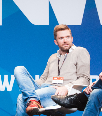 The Next Web Conference 2015